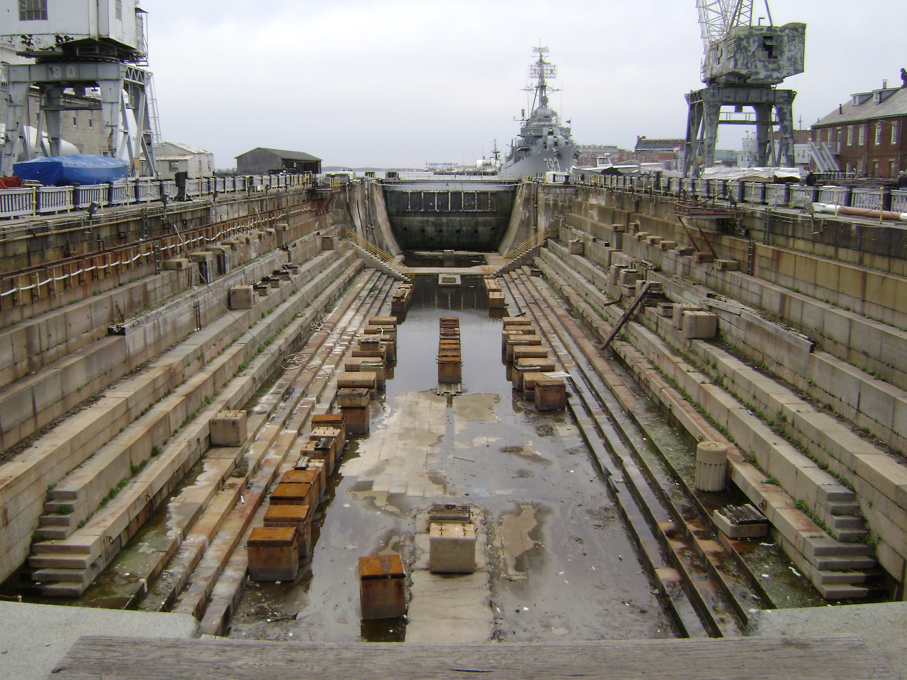 Dry Dock 1 - Boston Naval Yard, Charlestown, Boston, Massachusetts. A civil engineering landmark.